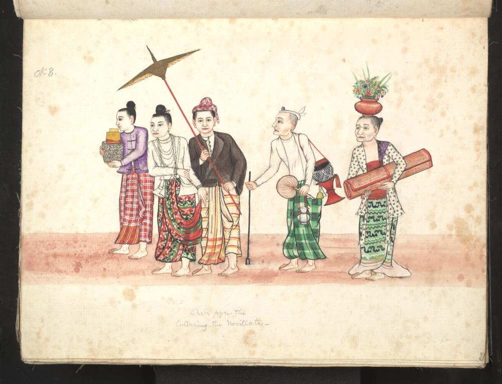 Watercolour painting by an unknown Burmese artist depicting 19th century Burmese life.